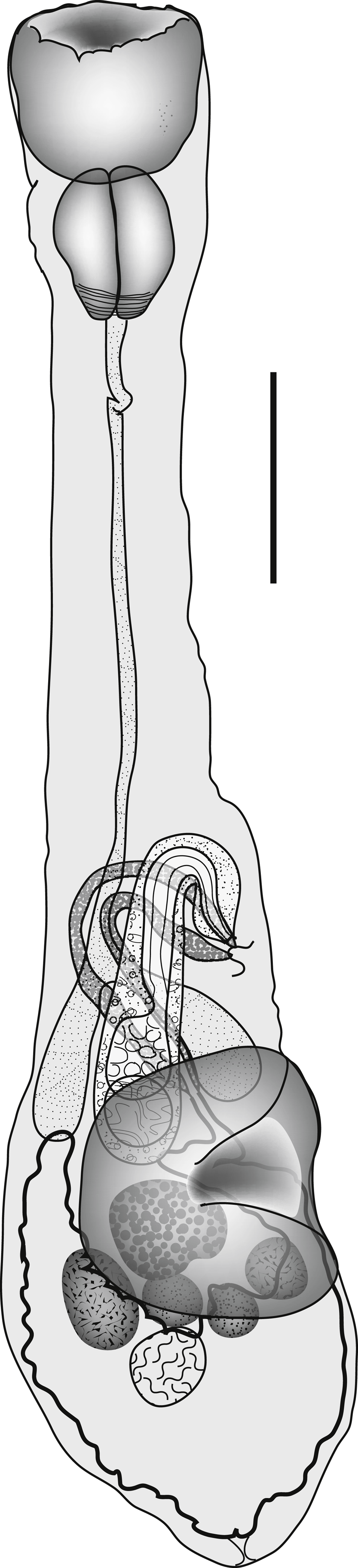 Figure 1: Diphterostomum plectorhynchi Machida, Kamegai & Kuramochi 2006. Ventral view with ventral sucker twisted. Scale bar 200 µm.